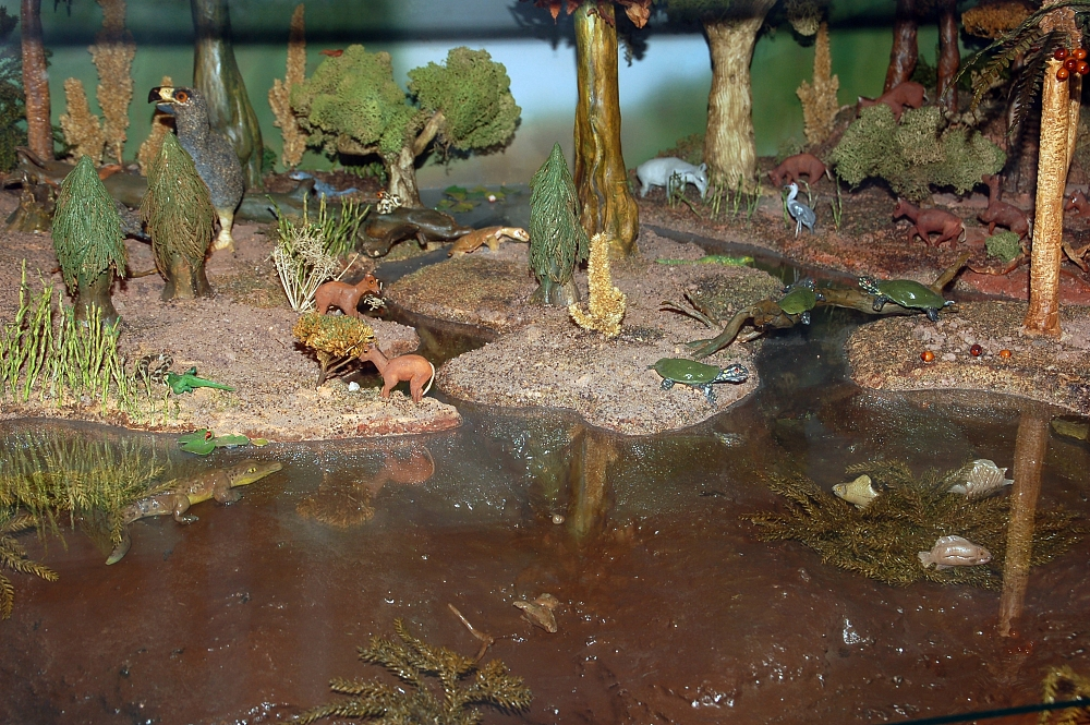 Museum Messel, Messel, Hesse, Germany